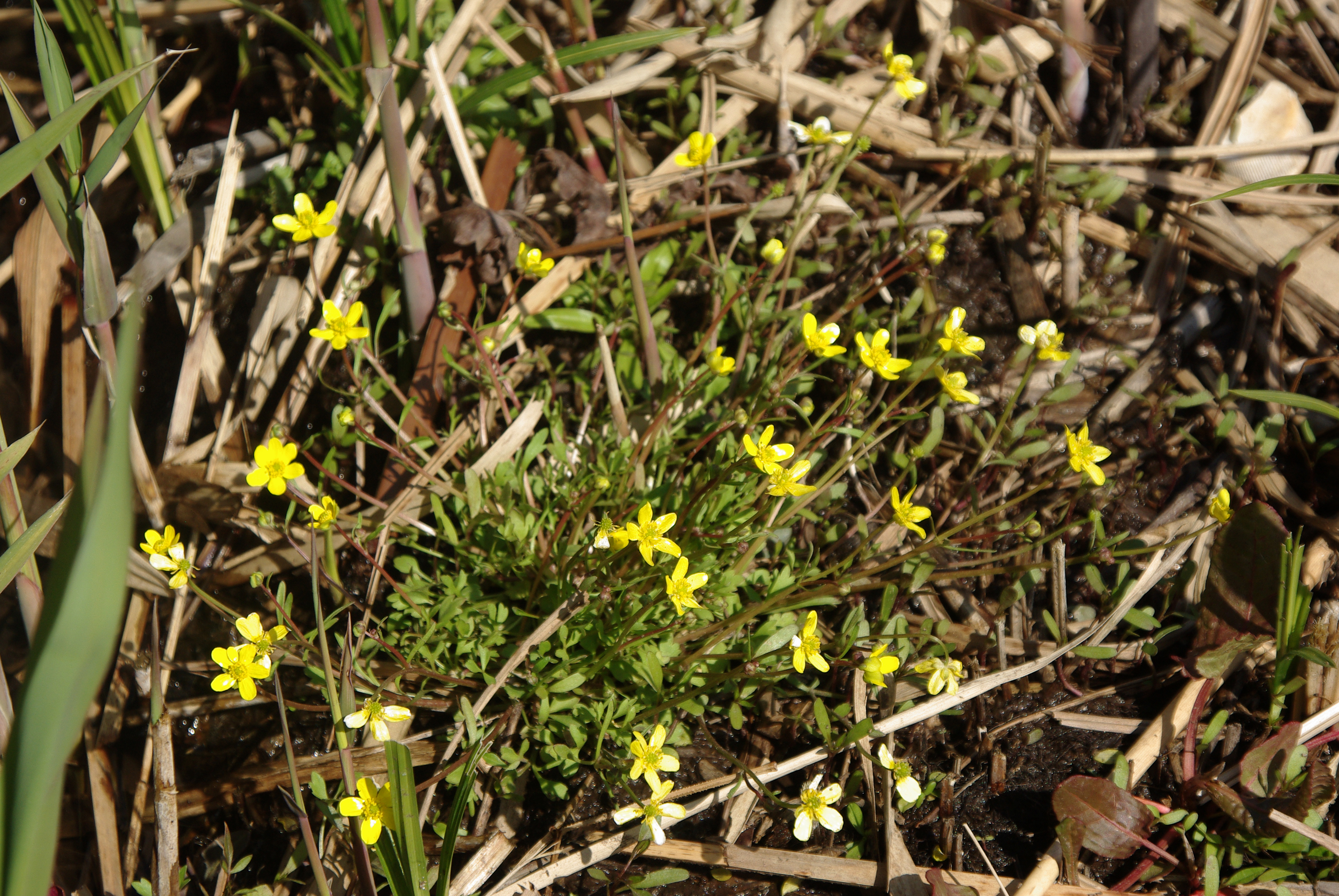 Ranunculus ternatus